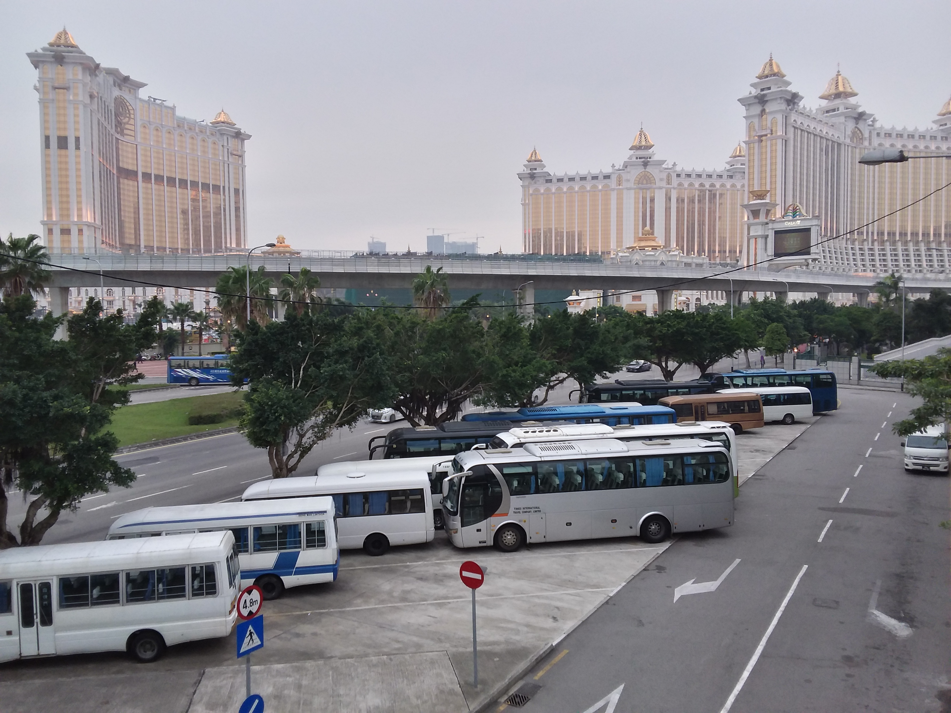 望德聖母灣大馬路 Estrada da Baía de Nossa Senhora da Esperança, Cotai, Macau in Jan 2019